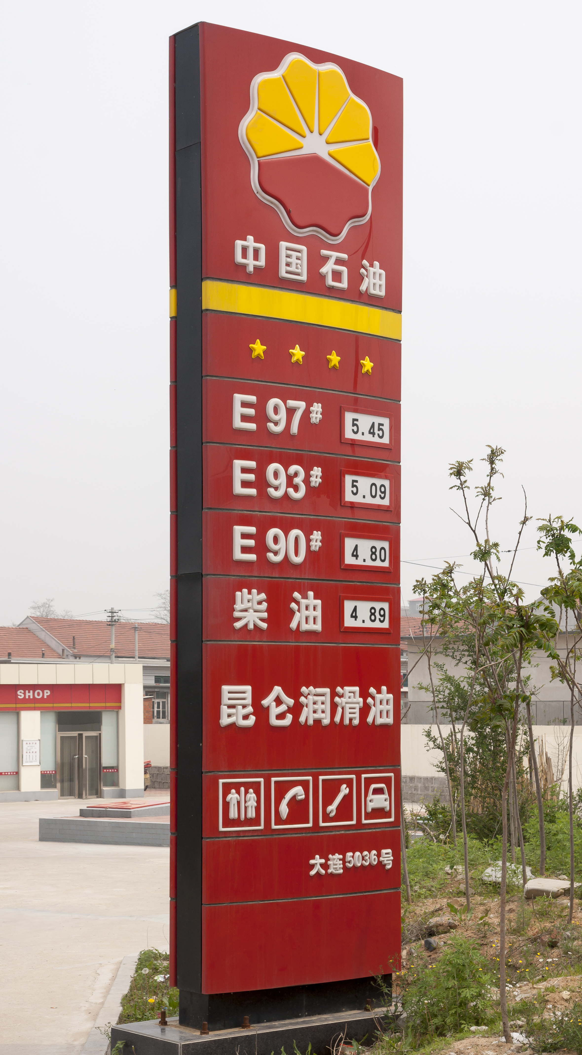 Dalian, Liaoning, China: China National Petroleum Corporation fuel station